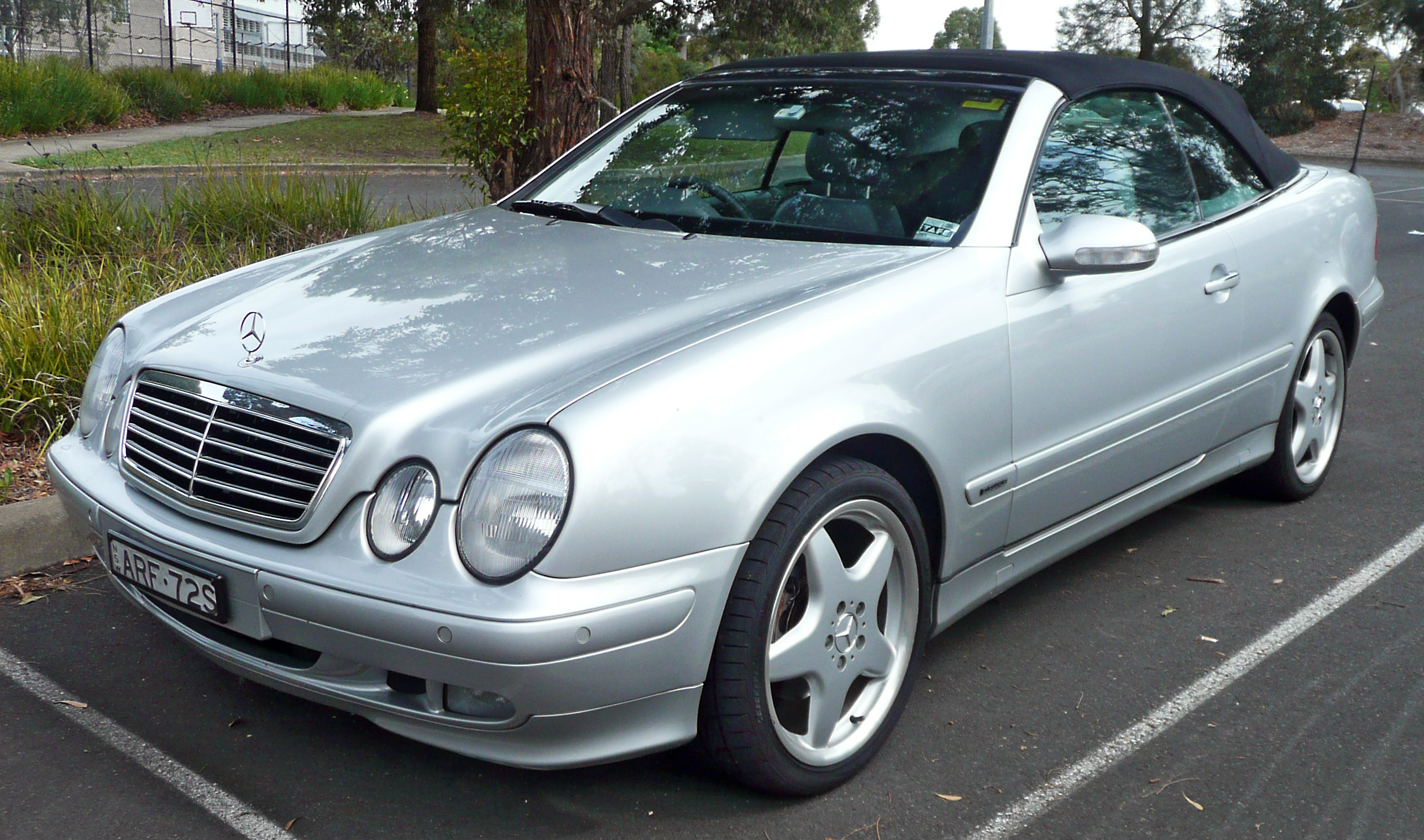 1999–2003 Mercedes-Benz CLK 320 (A 208) Elegance convertible. Photographed in Loftus, New South Wales, Australia.